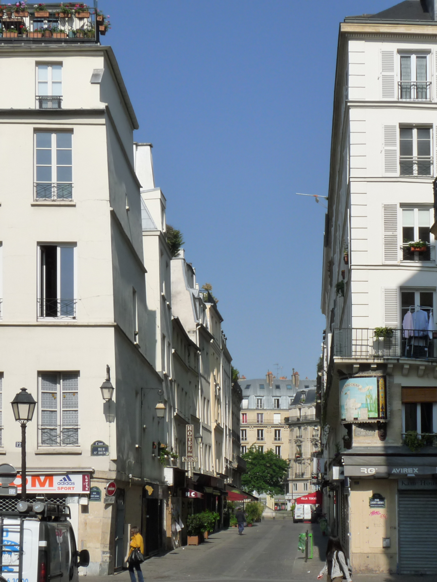 Rue du Cygne in Paris, looking towards west